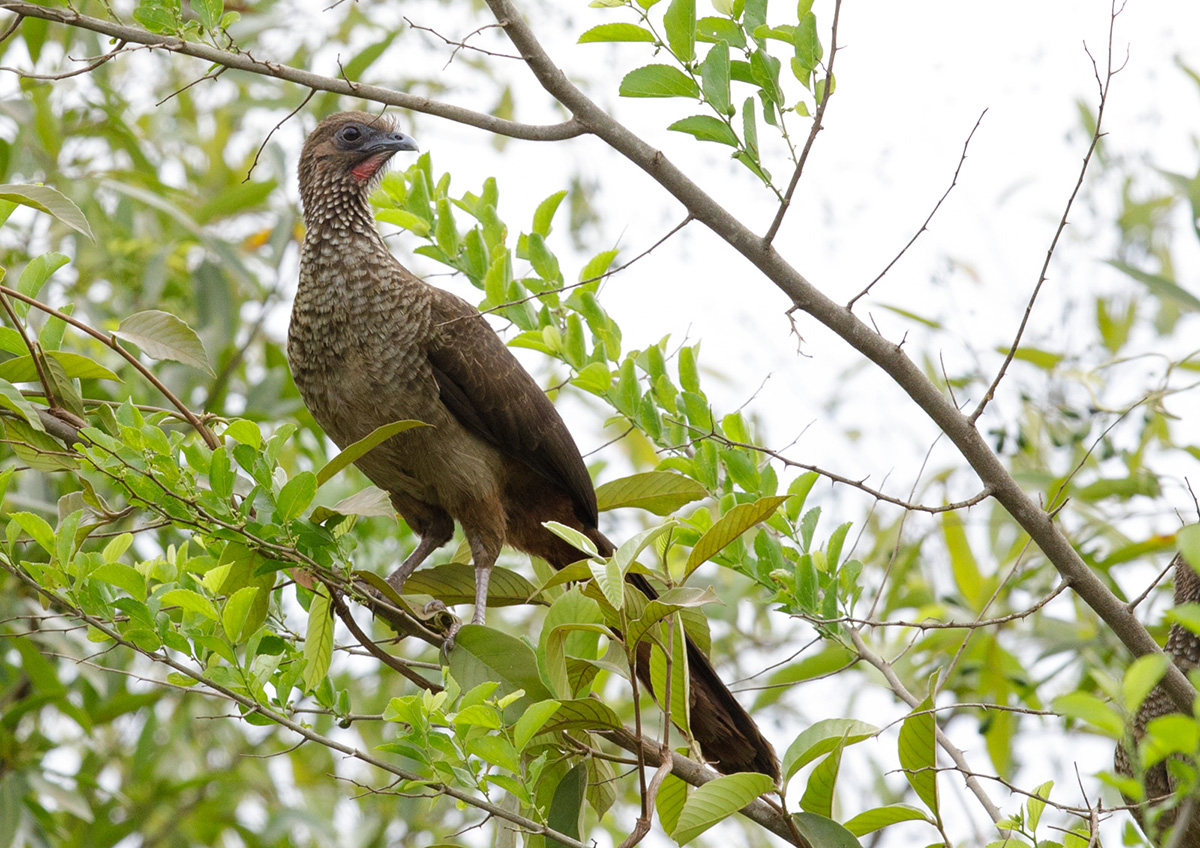 Picture of Ortalis remota, CR especie from Brazil